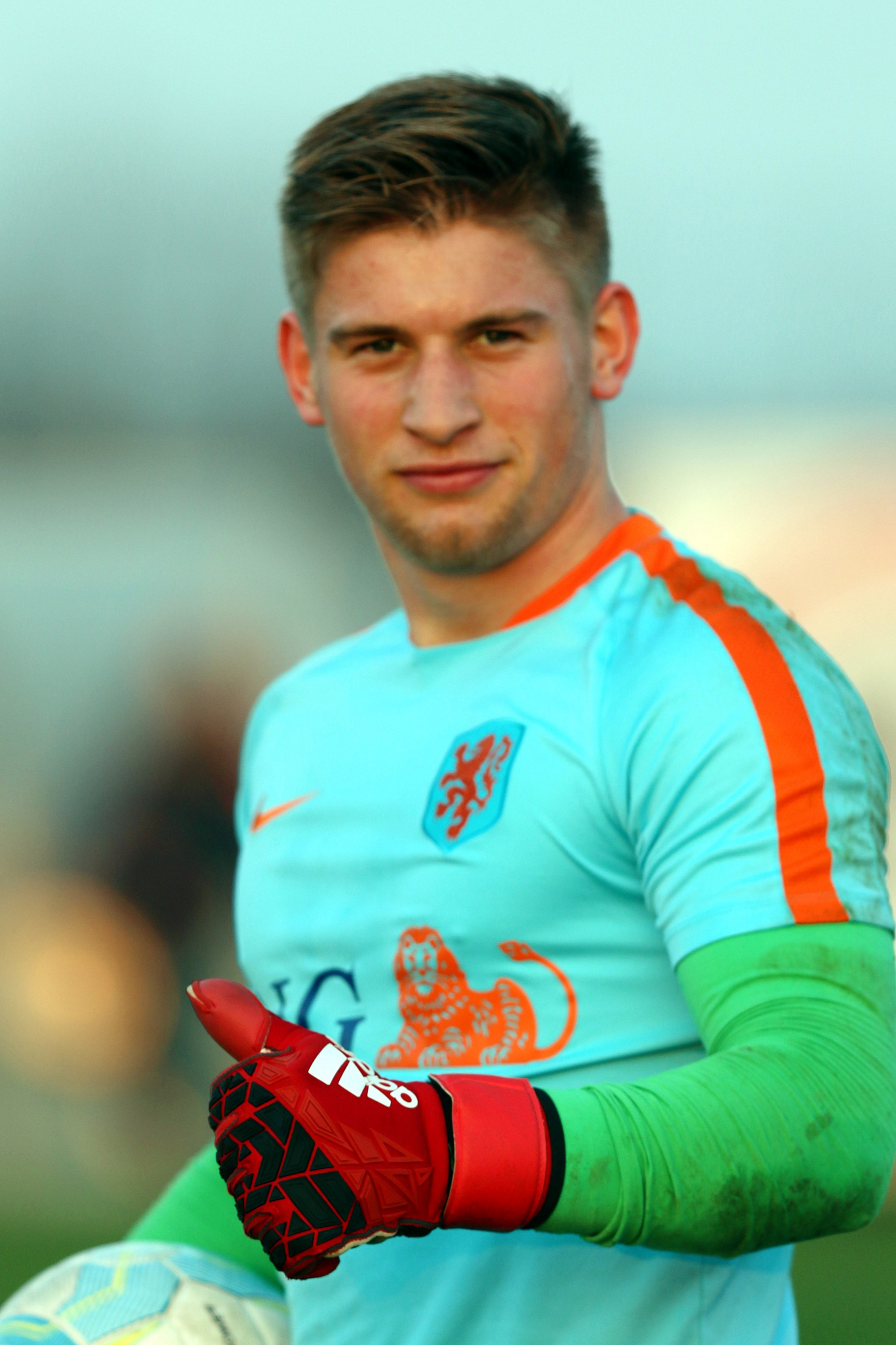 Friendly match Austria national under-18 football team (red shirts) vs. Netherlands national under-18 football team (blue shirts) 1–1 (1–0) on 2017-03-23 in Eggendorf – The photo shows Mike van de Meulenhof (PSV Eindhoven U19).